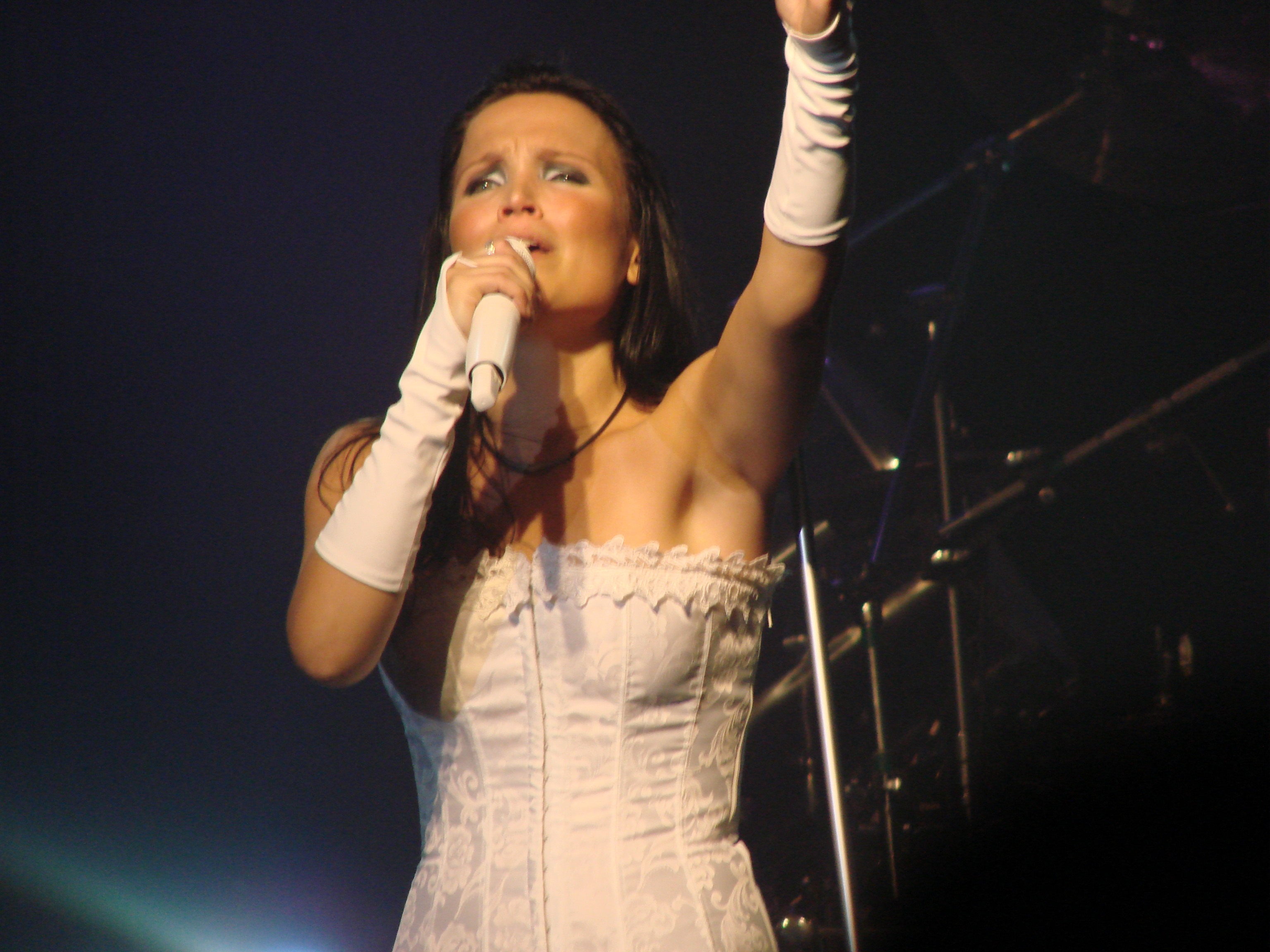 Tarja Turunen singing at the Obras Stadium in Buenos Aires, Argentina, on September 6, 2008. This was the last show of the Winter Storm tour on America.